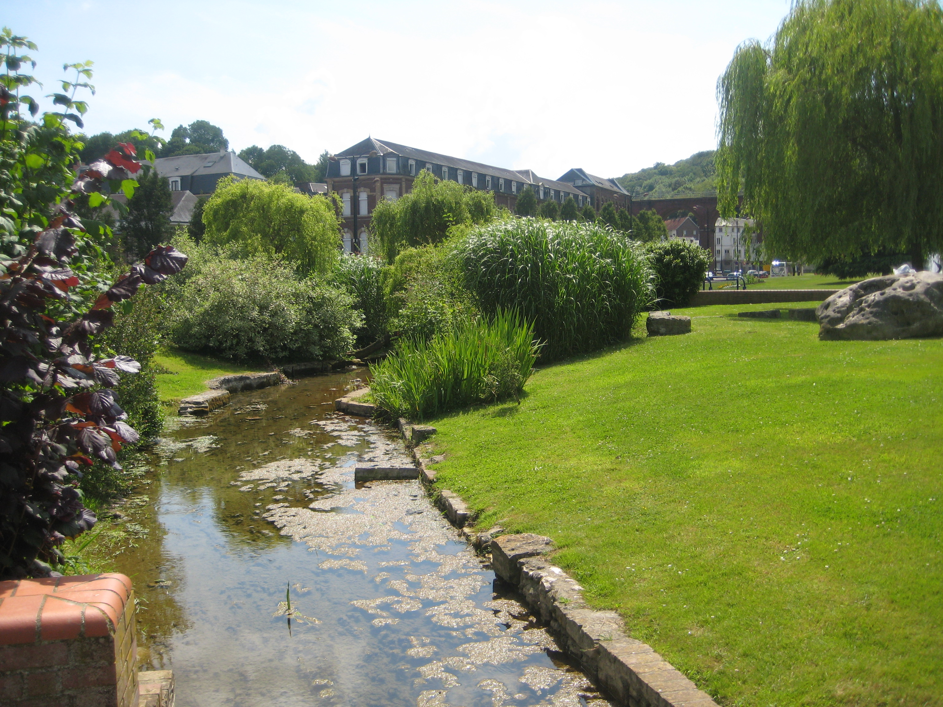 René Youinou public garden